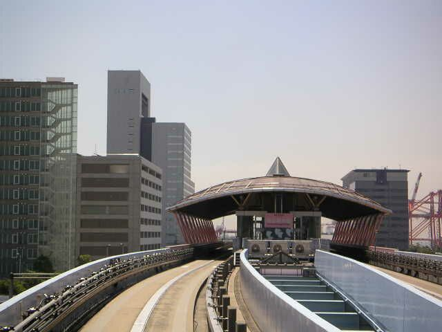 Funenokagakukan Station of Yurikamome